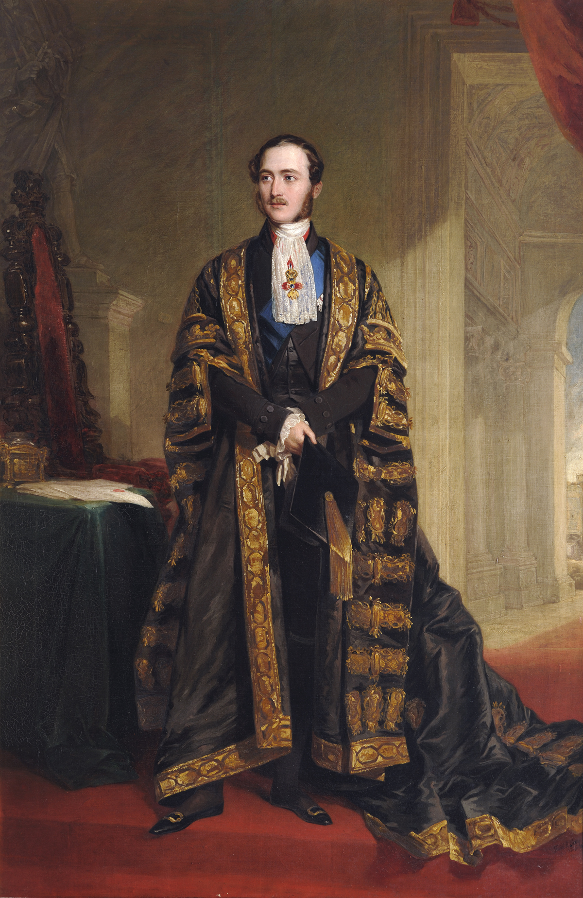 Portrait of Albert, Prince Consort, in the robes of Chancellor of the University of Cambridge.